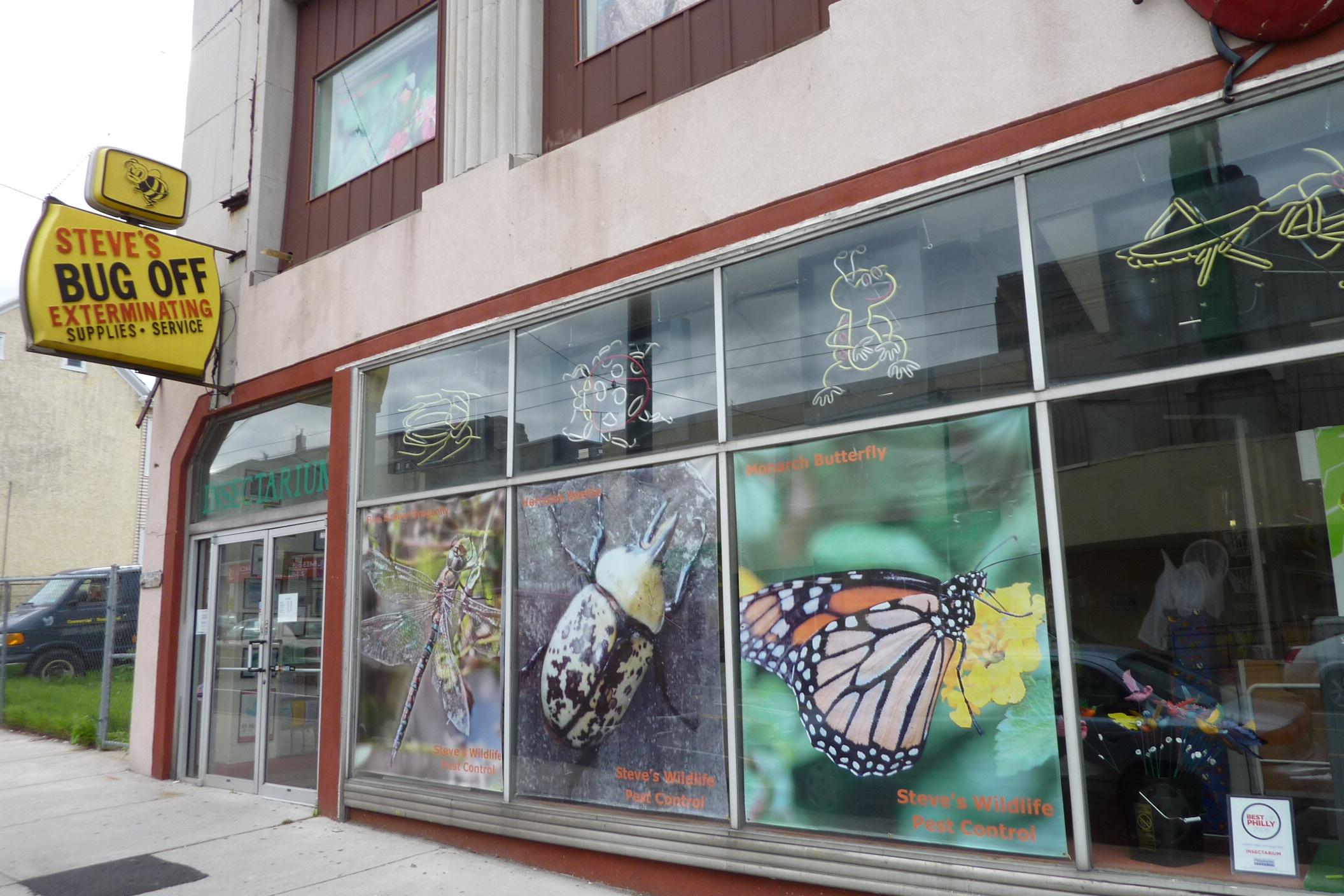 The Insectarium, a museum with live and mounted insects, located in located in the Northeast part of Philadelphia, Pennsylvania.